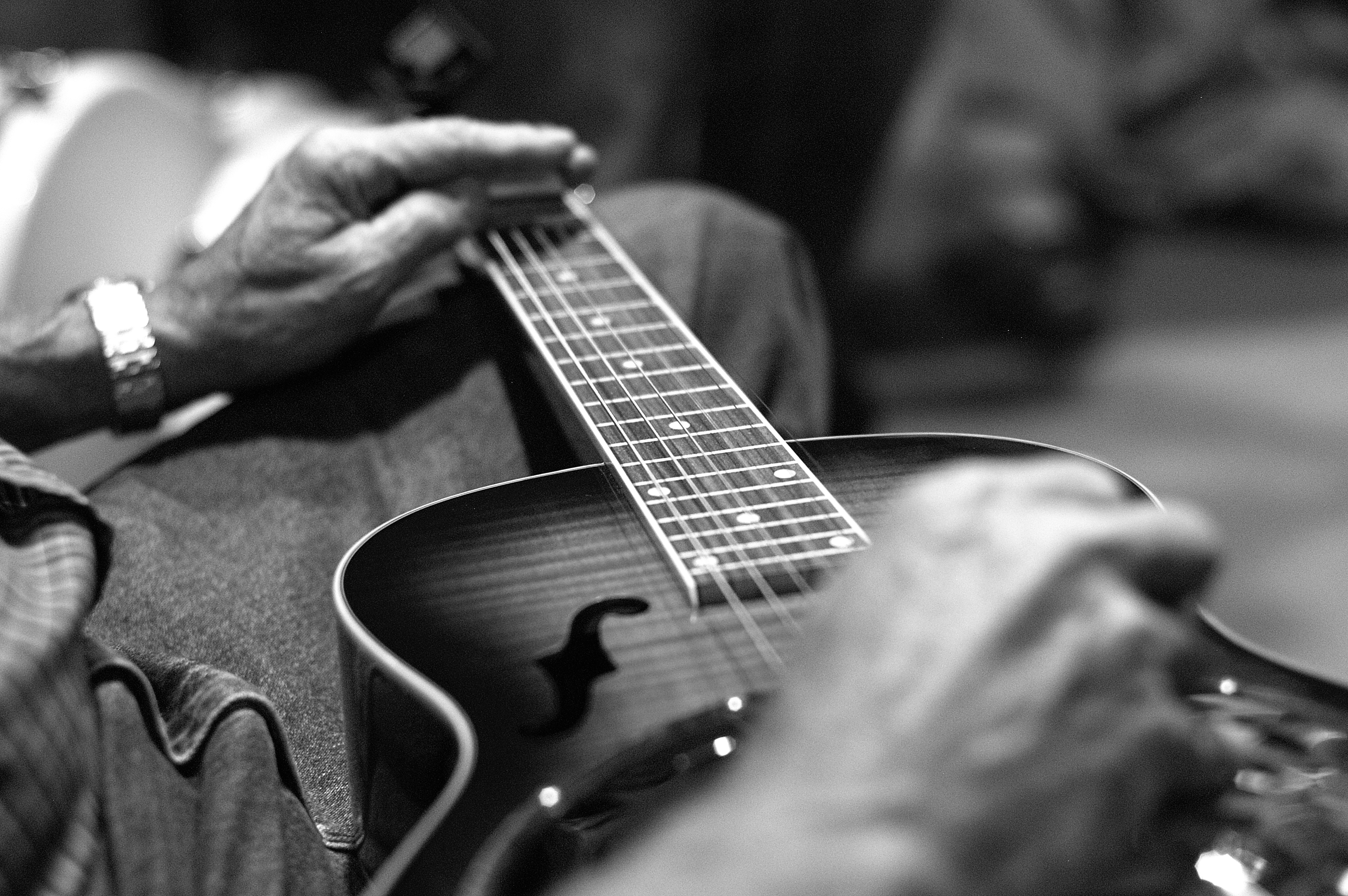 Man playing Dobro